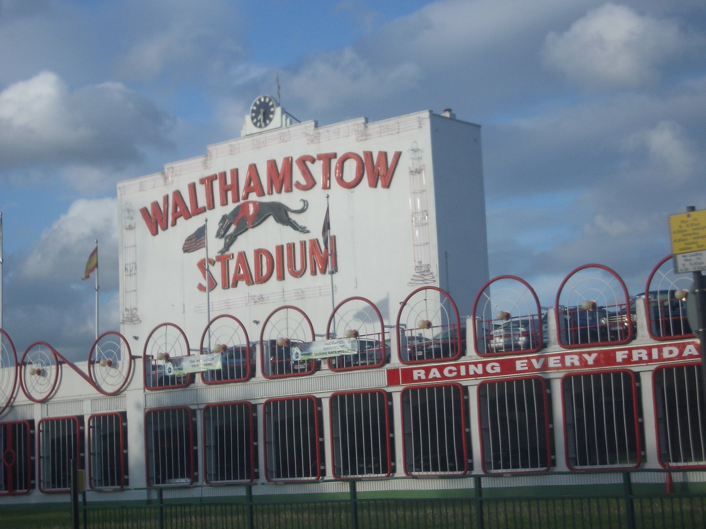 Michael Rosenberg (Me)